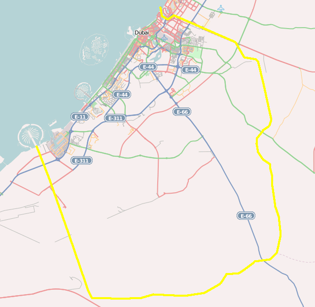 Dubai